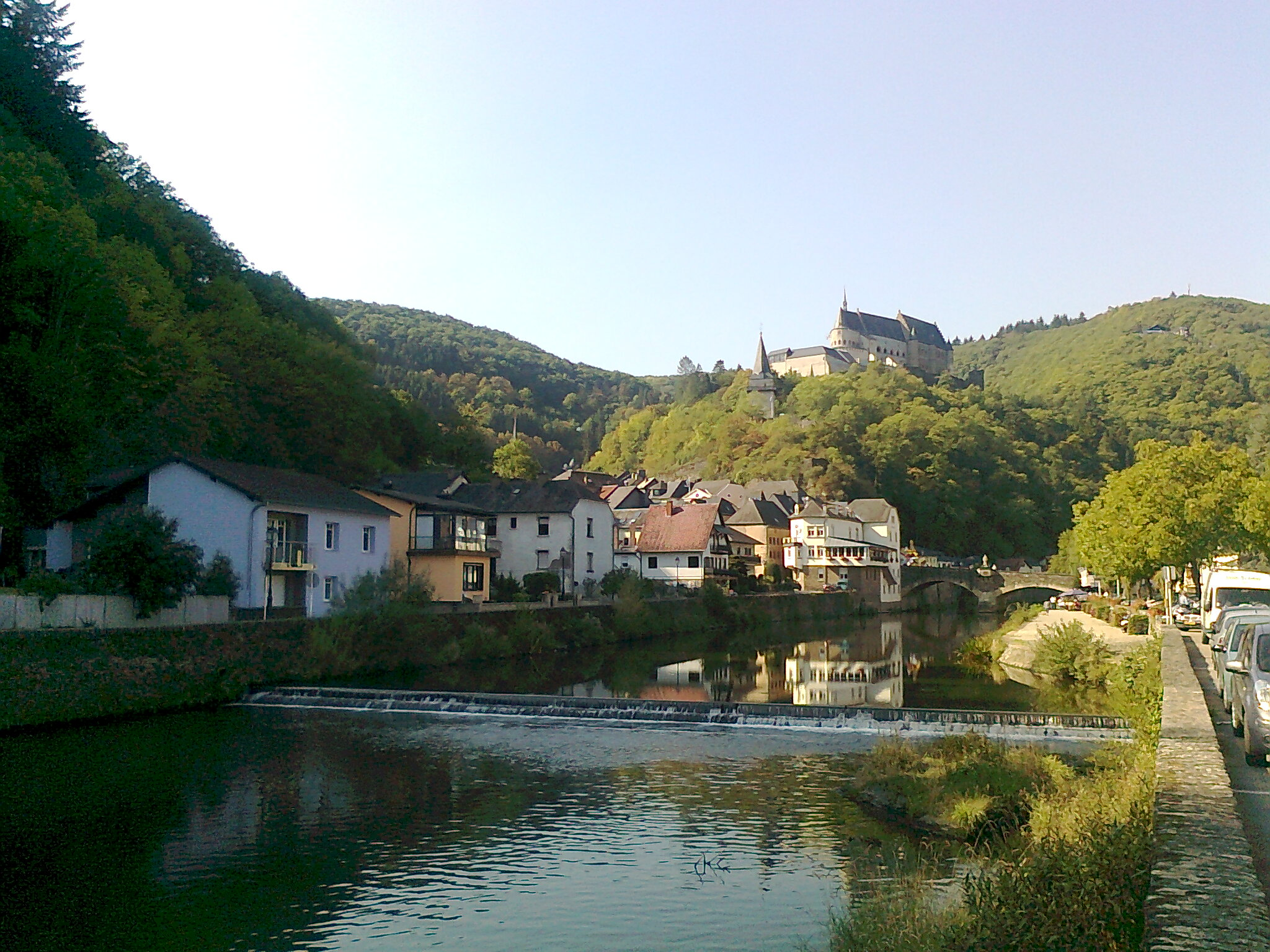 Vianden, panoramic view